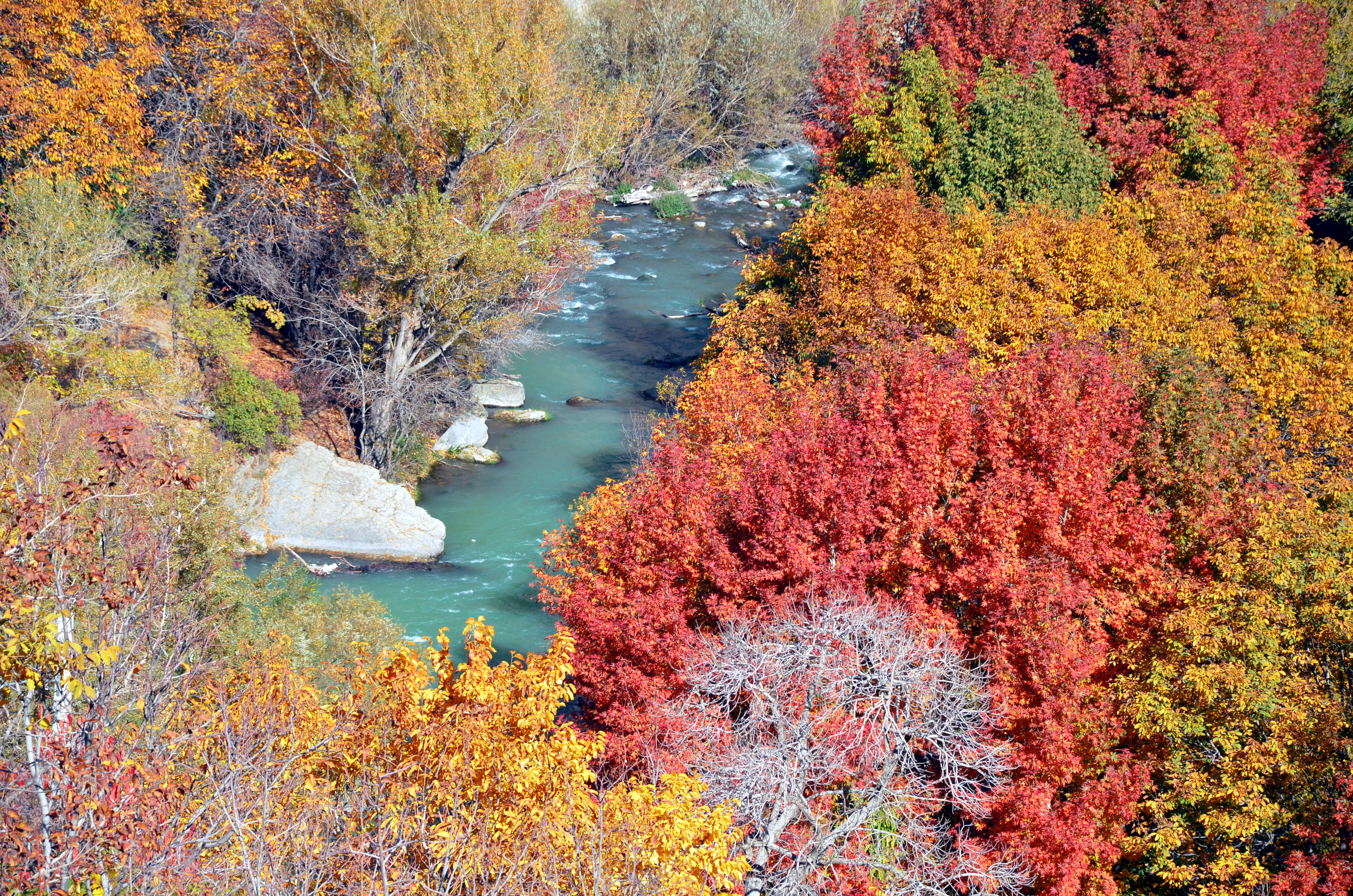 Aderan Village, Karaj, Alborz Province, Iran